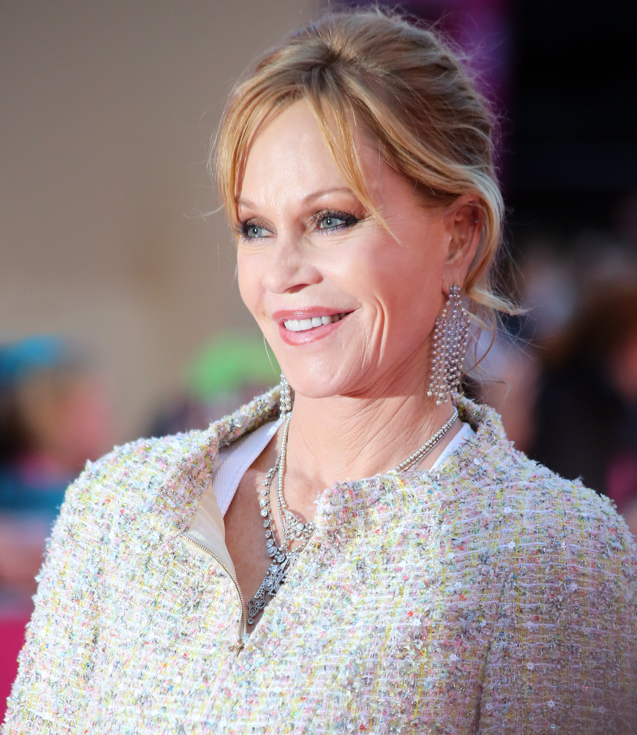 Melanie Griffith on the 'magenta carpet' at Life Ball 2013 at the square in front of the city hall of Vienna, Vienna, Austria.